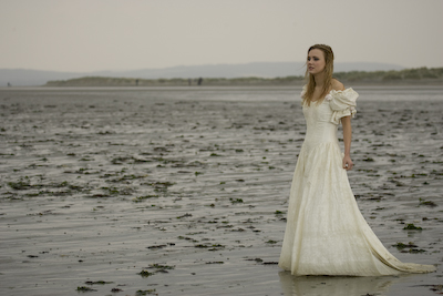 Example of the Trash the dress photo series